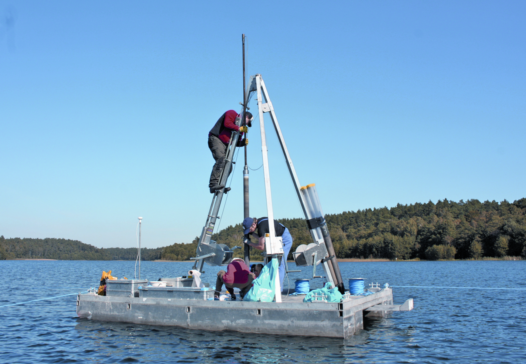 Bohrplattform zur Seesedimententnahme auf dem Großen Fürstenseer See